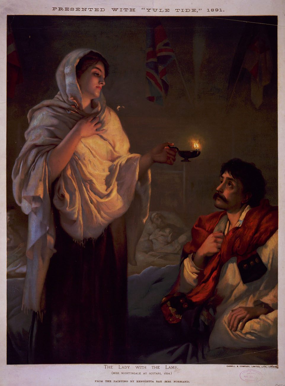 Additional text: Presented with Yule tide, 1891. From the painting by Henrietta Rae (Mrs. Normand) Date Created/Published: London: Cassell & Company, Limited, 1891. Summary: Florence Nightingale holding lamp in front of man. Reproduction Number: LC-DIG-pga-00466 (digital file from original print) LC-USZC4-4239 (color film copy transparency) LC-USZ62-75815 (b&w film copy neg.) Call Number: PGA - Cassell & Company--Lady with the Lamp (D size)